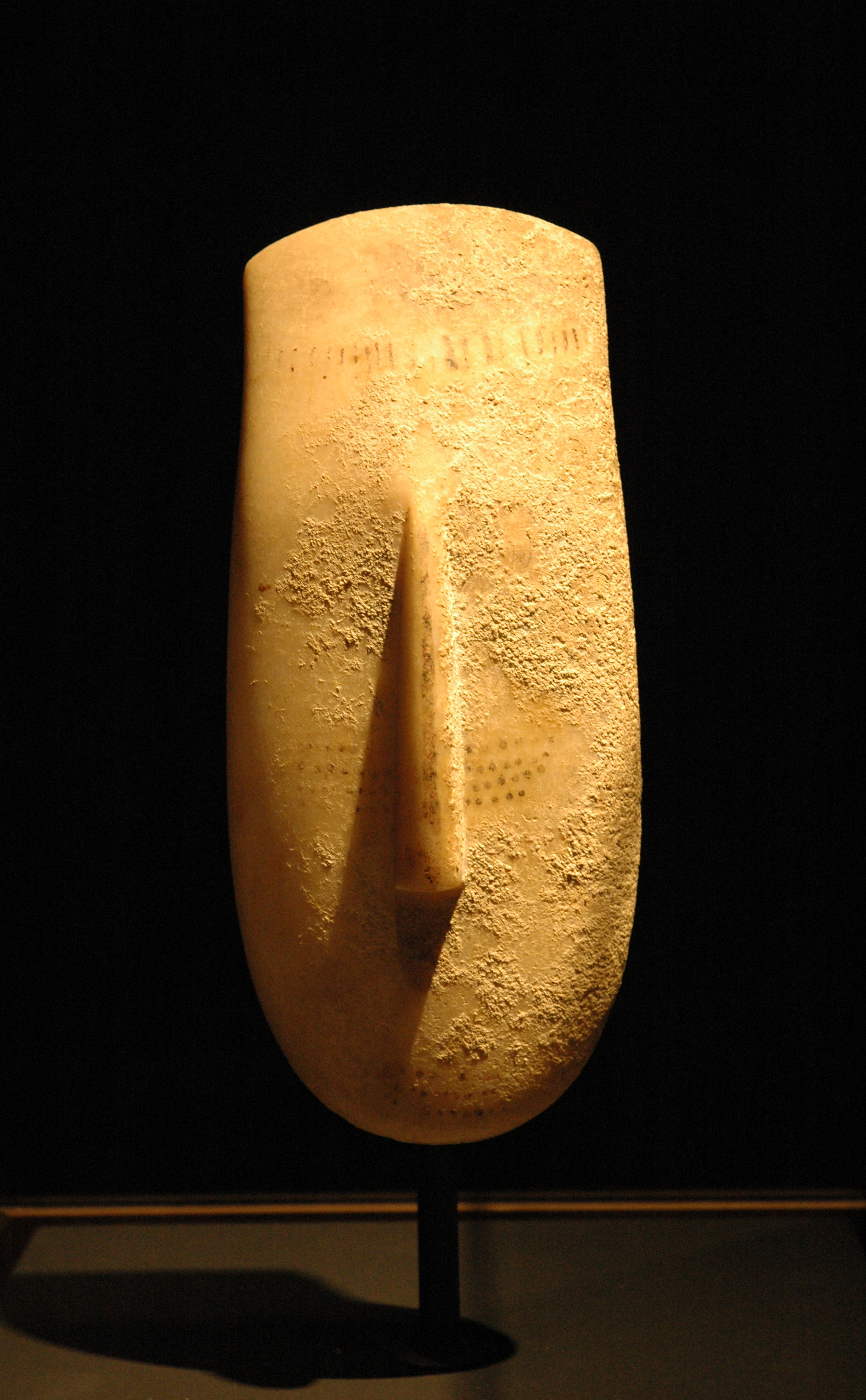 Head of a large female figure. Marble and pigments, Early Cycladic, 2600–2500 BC.